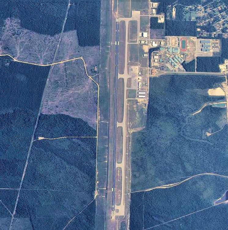 USGS digital orthophoto of Stennis International Airport in Mississippi